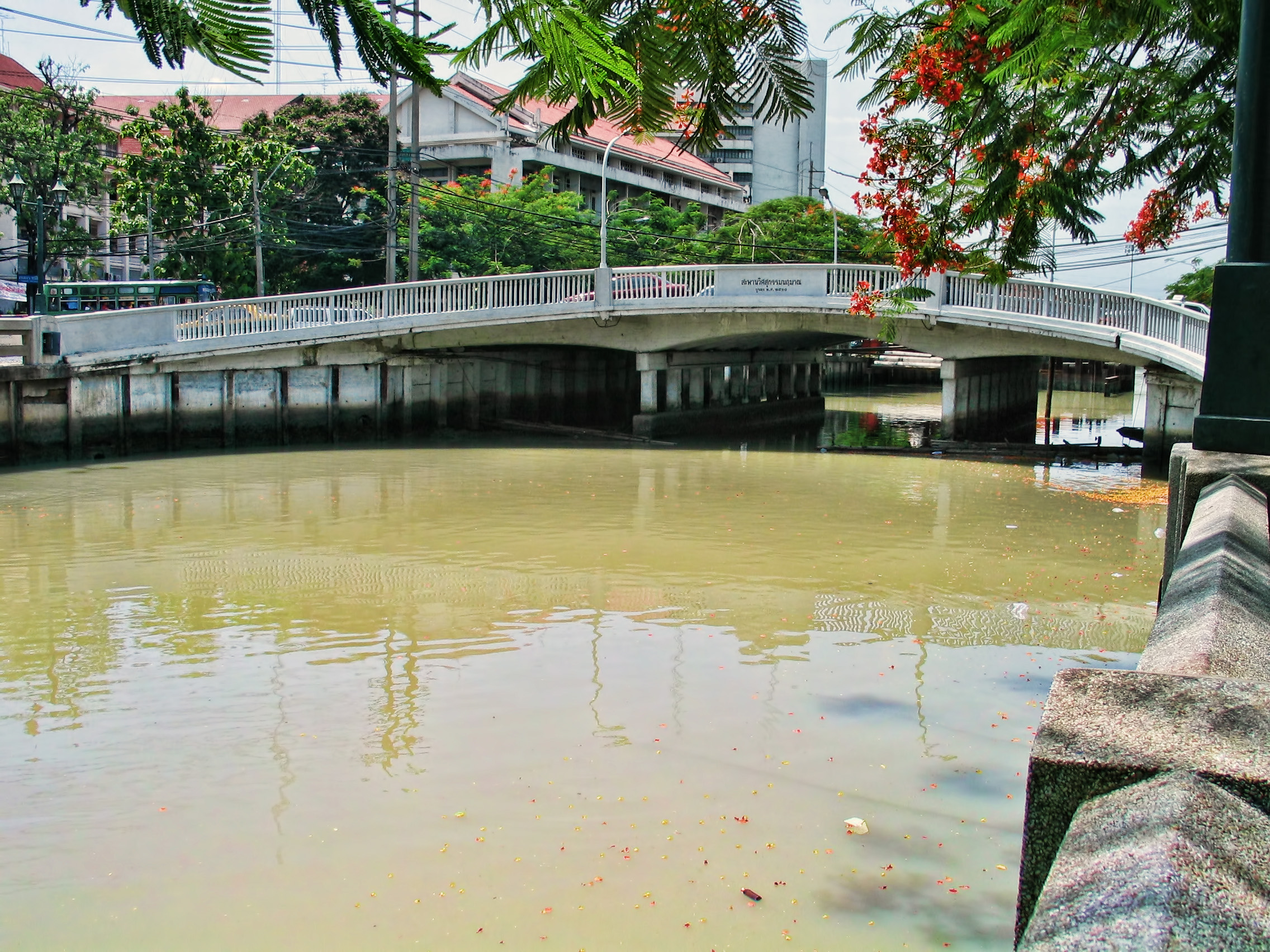 Saphan Wisukam Narueman (Wisukam Narueman Bridge) over Khlong Krung Kasem, Bangkok